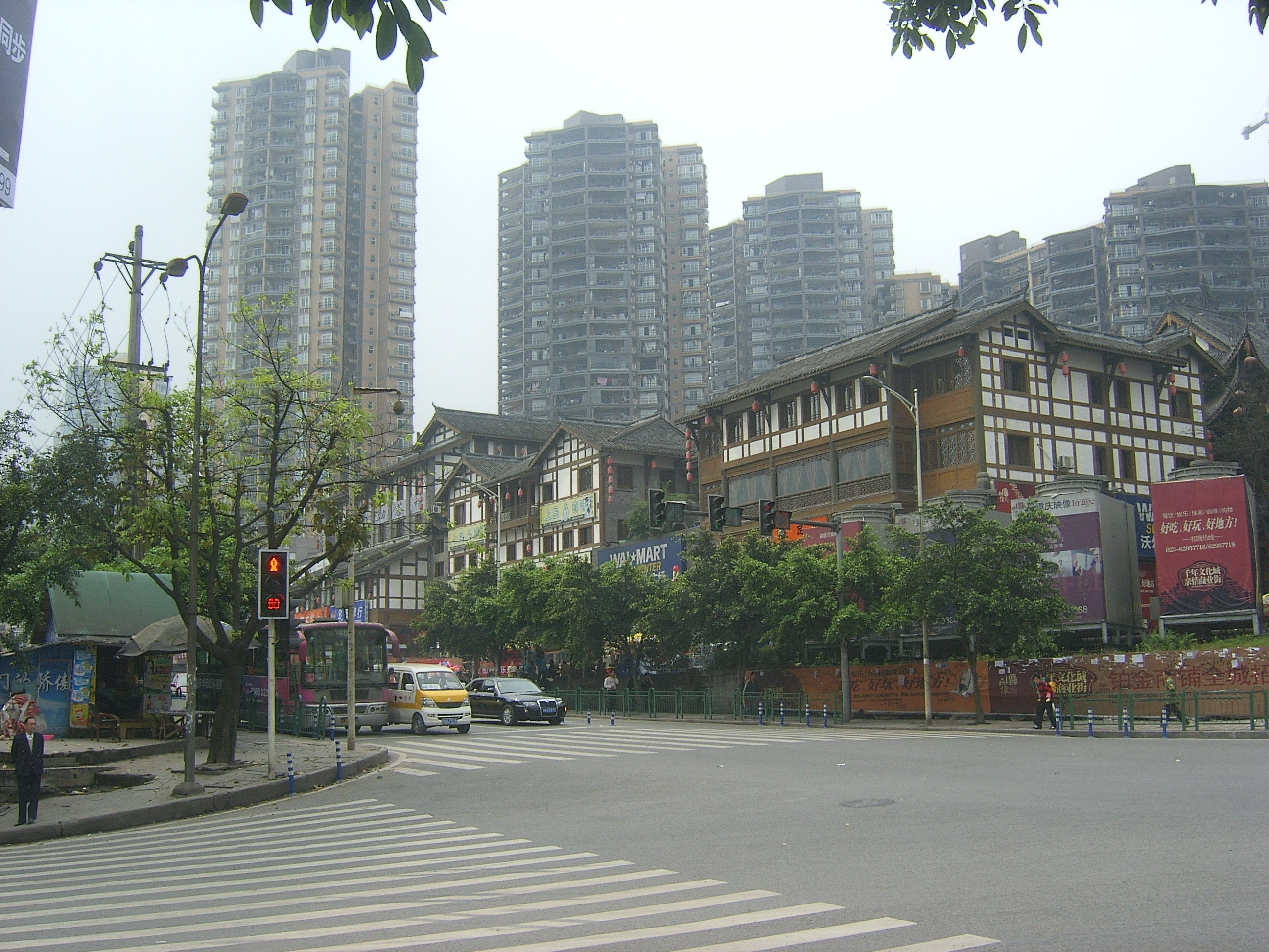 The WalMart supermarket at Nan'an,Chongqing. This photo has taken by Mr.Chen Hualin.